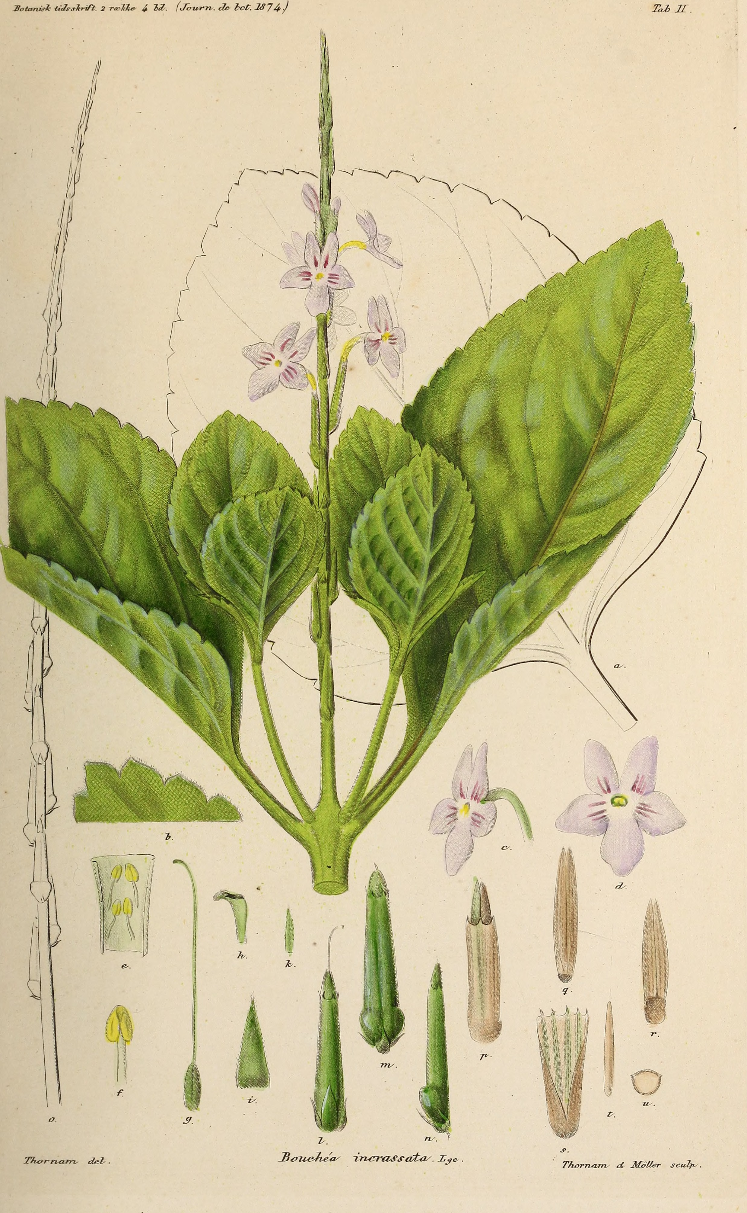 Title: Botanisk tidsskrift Year: 1866 (1860s) Authors: Botaniske forening i København Subjects: Botany; Plants; Plants Publisher: København : H. Hagerups Forlag Text Appearing Before Image: ' Text Appearing After Image: '